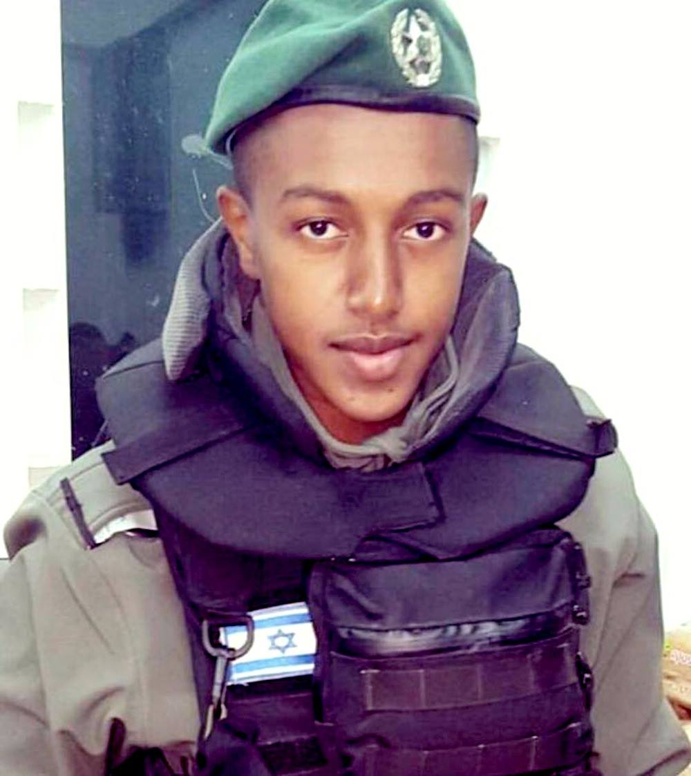 SSgt. Solomon Gavriyah, Israeli officer who was killed in Har Adar shooting on 26 September 2017